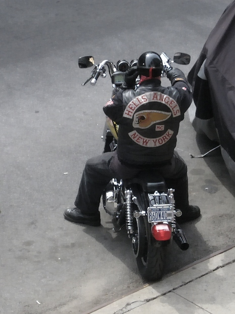 A member of the New York Charter of Hells Angels with a Harley Davidson motorcycle, in front of the Hells Angels clubhouse in New York, USA.